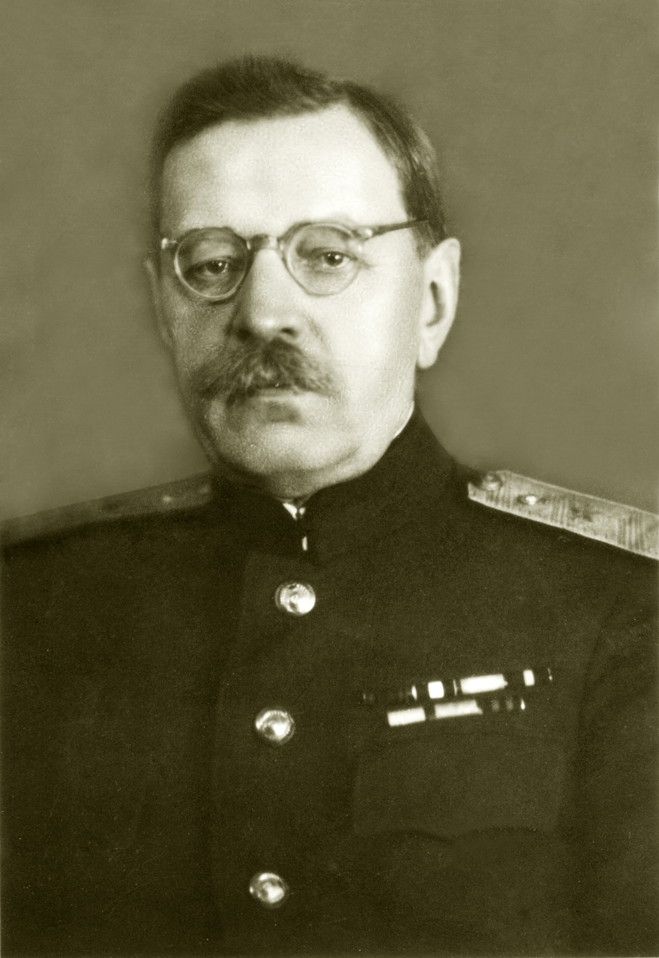 Maslov Mihail Stepanovich. Рrofessor of Pediatrics